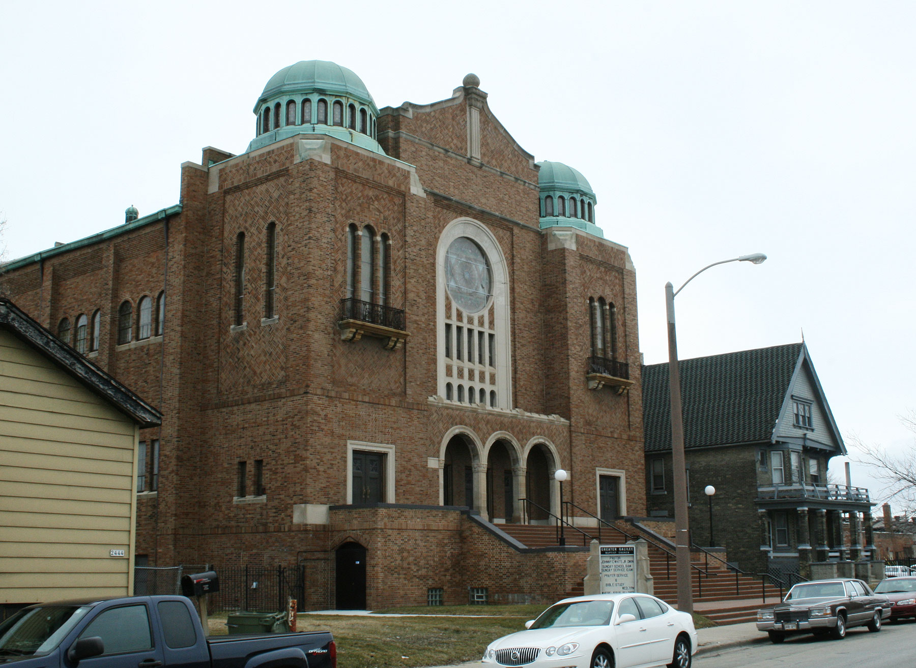 Former Congregation Beth Israel Synagogue, on Teutonia Avenue, in Milwaukee, Wisconsin. This building was sold in 1960 (to be replaced by a new synagogue elsewhere) and was converted into the Greater Galilee Missionary Baptist Church. It was listed on the National Register of Historic Places in 1992.